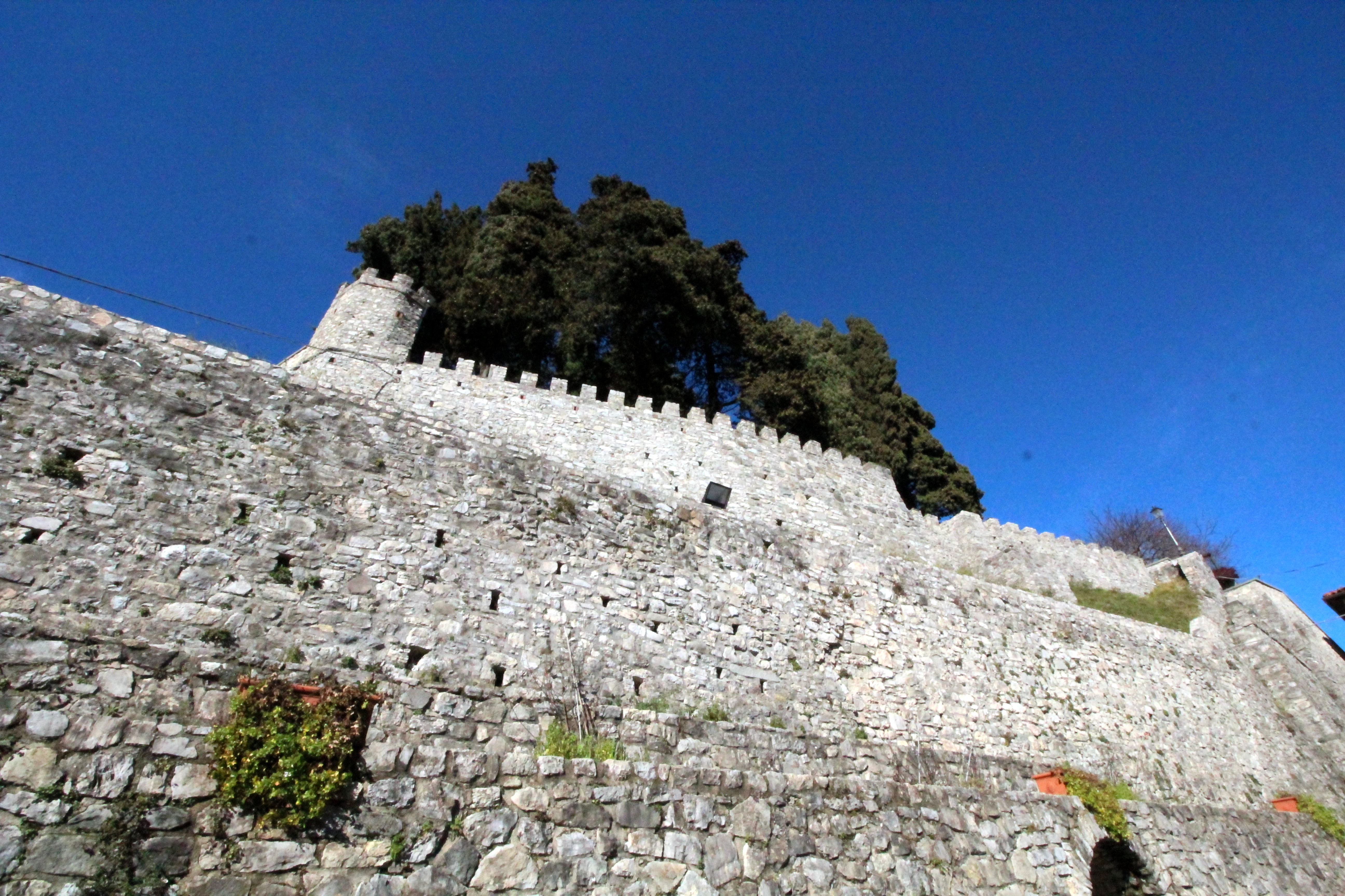 Castle Walls of the Castle Ruin Castello di Molazzana, Garfagnana, Province of Lucca, Tuscany, Italy